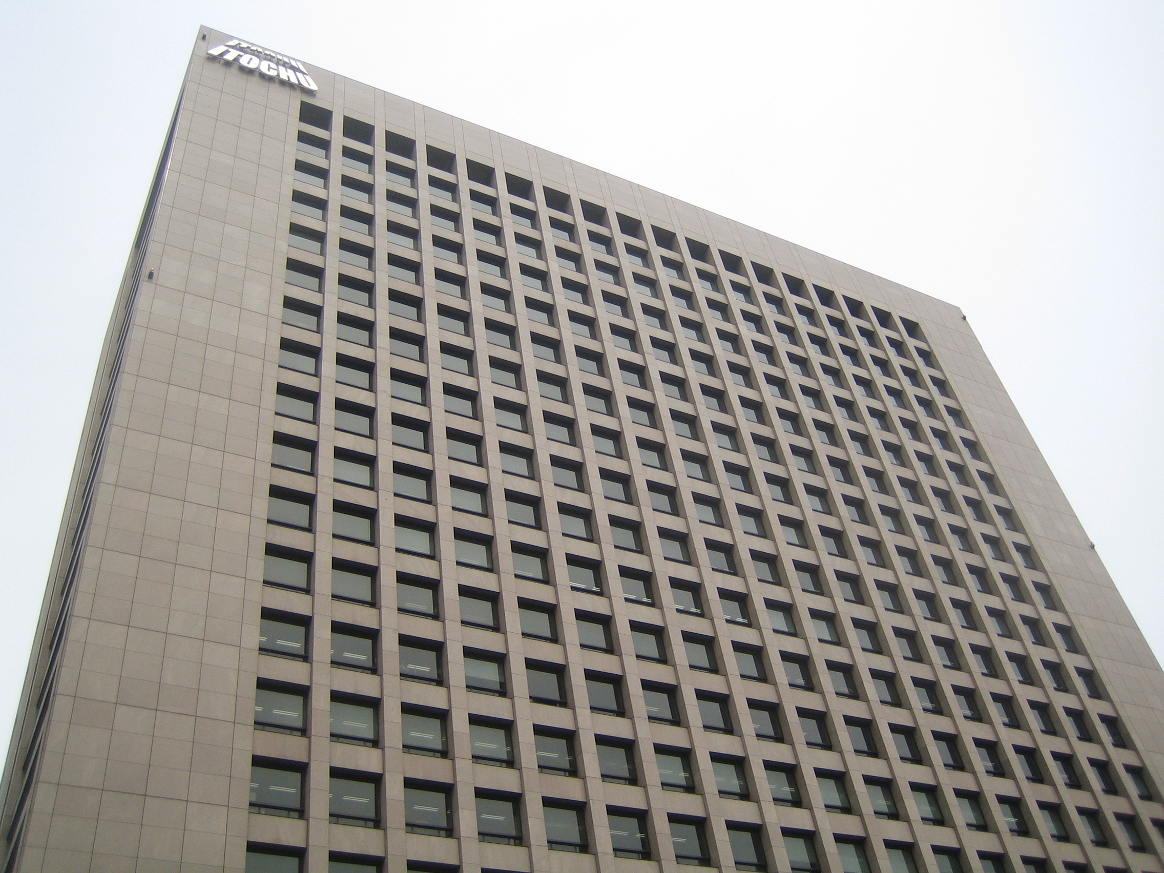 Itochu (伊藤忠商事 Itōchū Shōji), at Kita-Aoyama, Minato, Tokyo, Japan